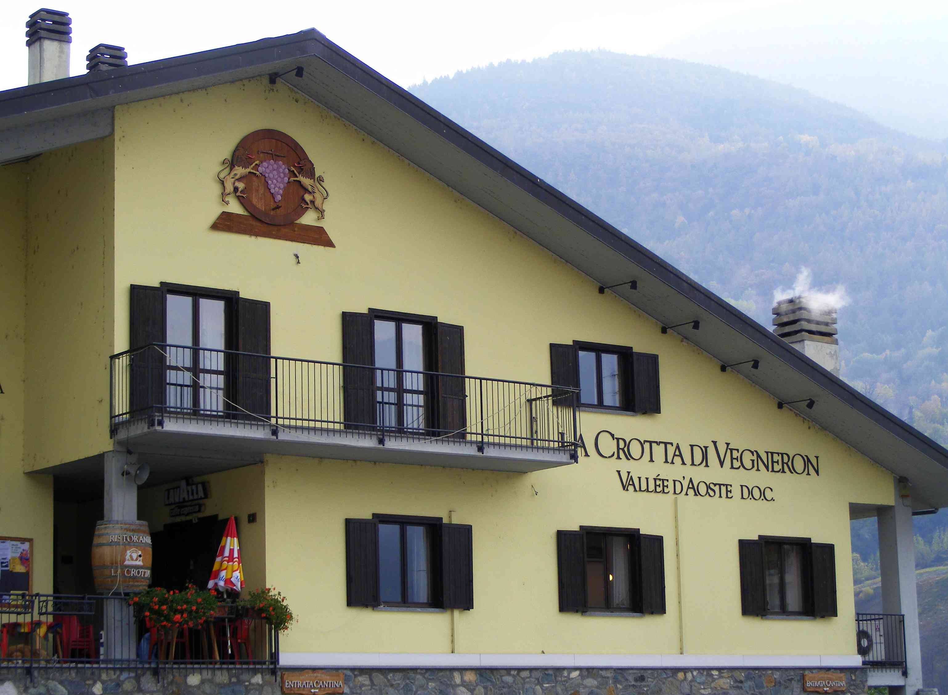 Chambave (AO, Italy): Crotta di Vegneron co-operative wine producer